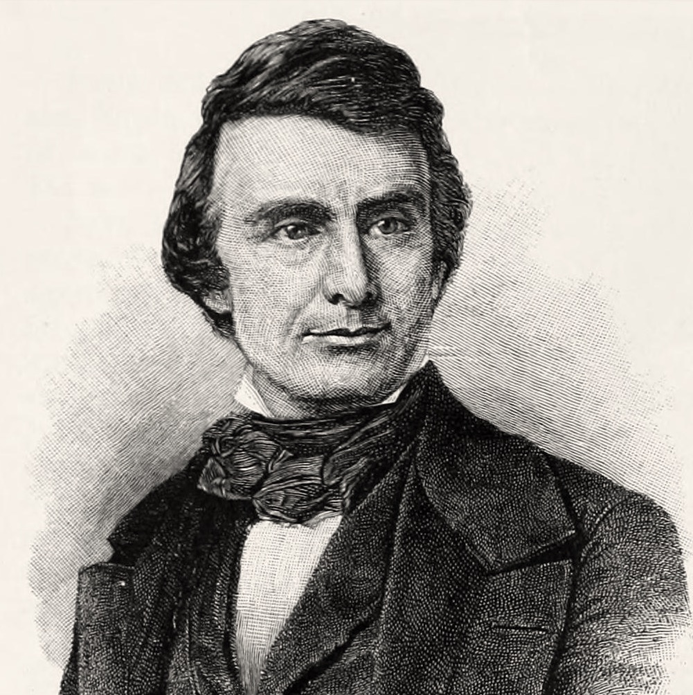 Portrait of American actor James E. Murdoch